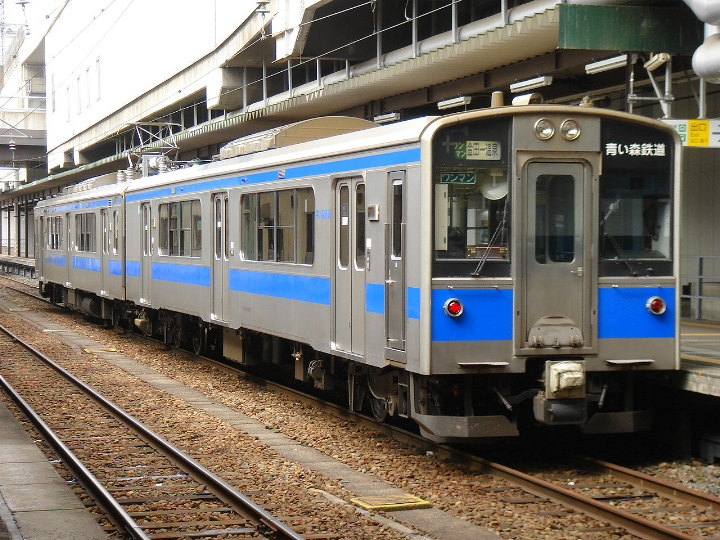 Aomori Railway 701 series EMU at Morioka Station, 10 March 2007